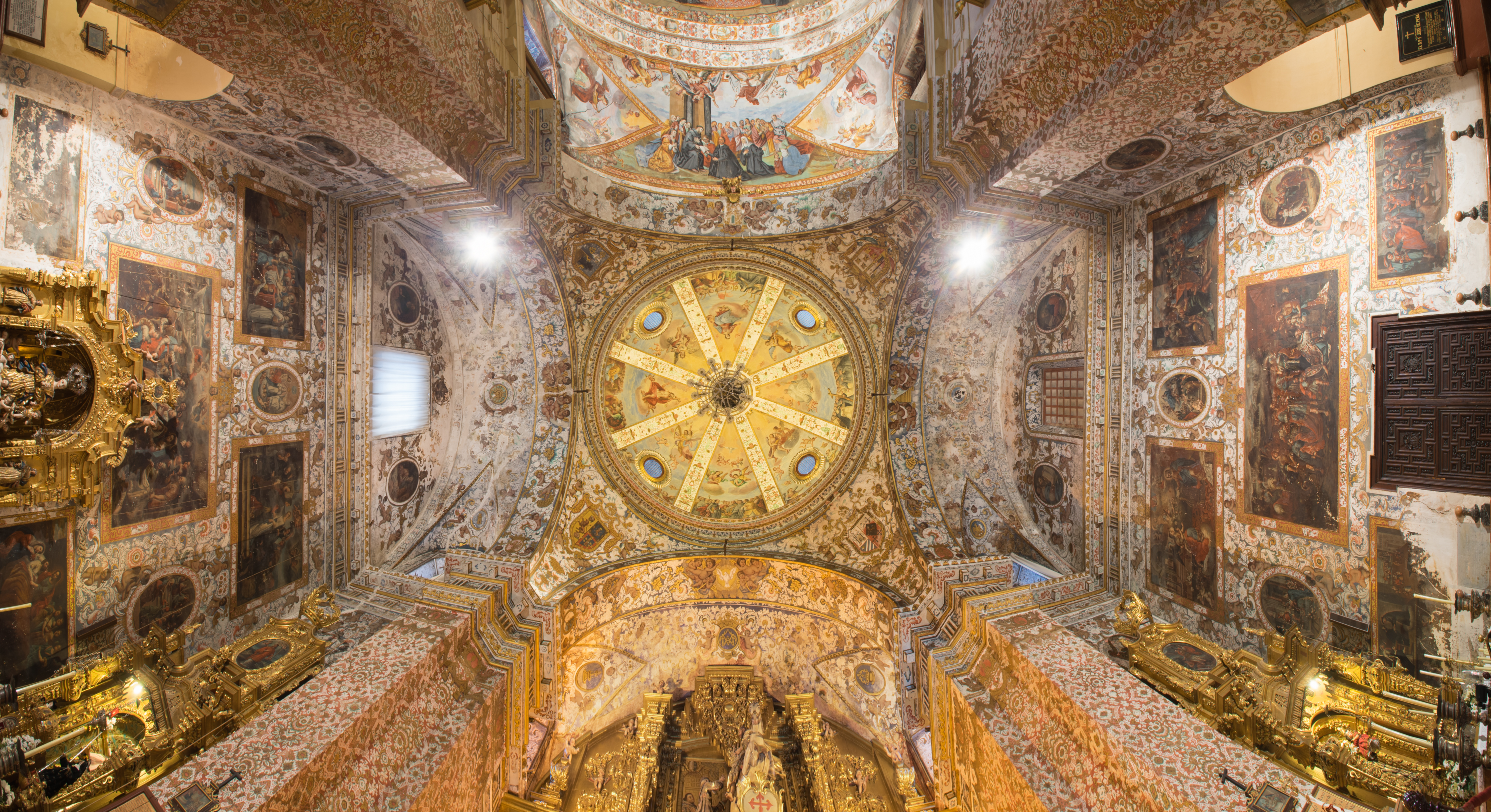 Dome of Church of Our Lady of Remedios. Antequera.